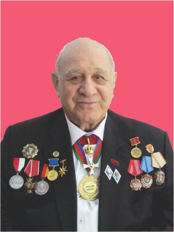 İngilab Nadirov